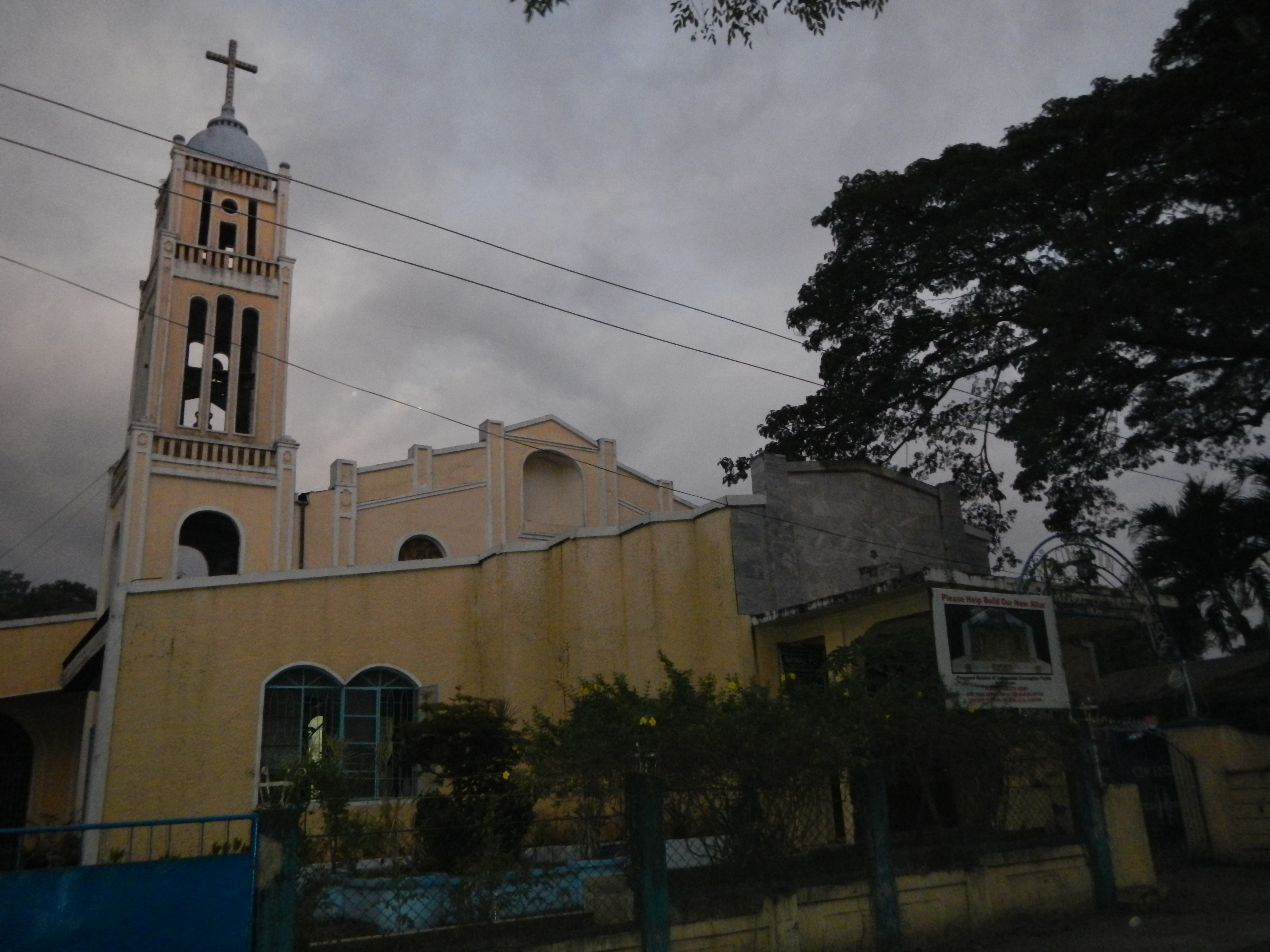 Rosario, La Union[1]